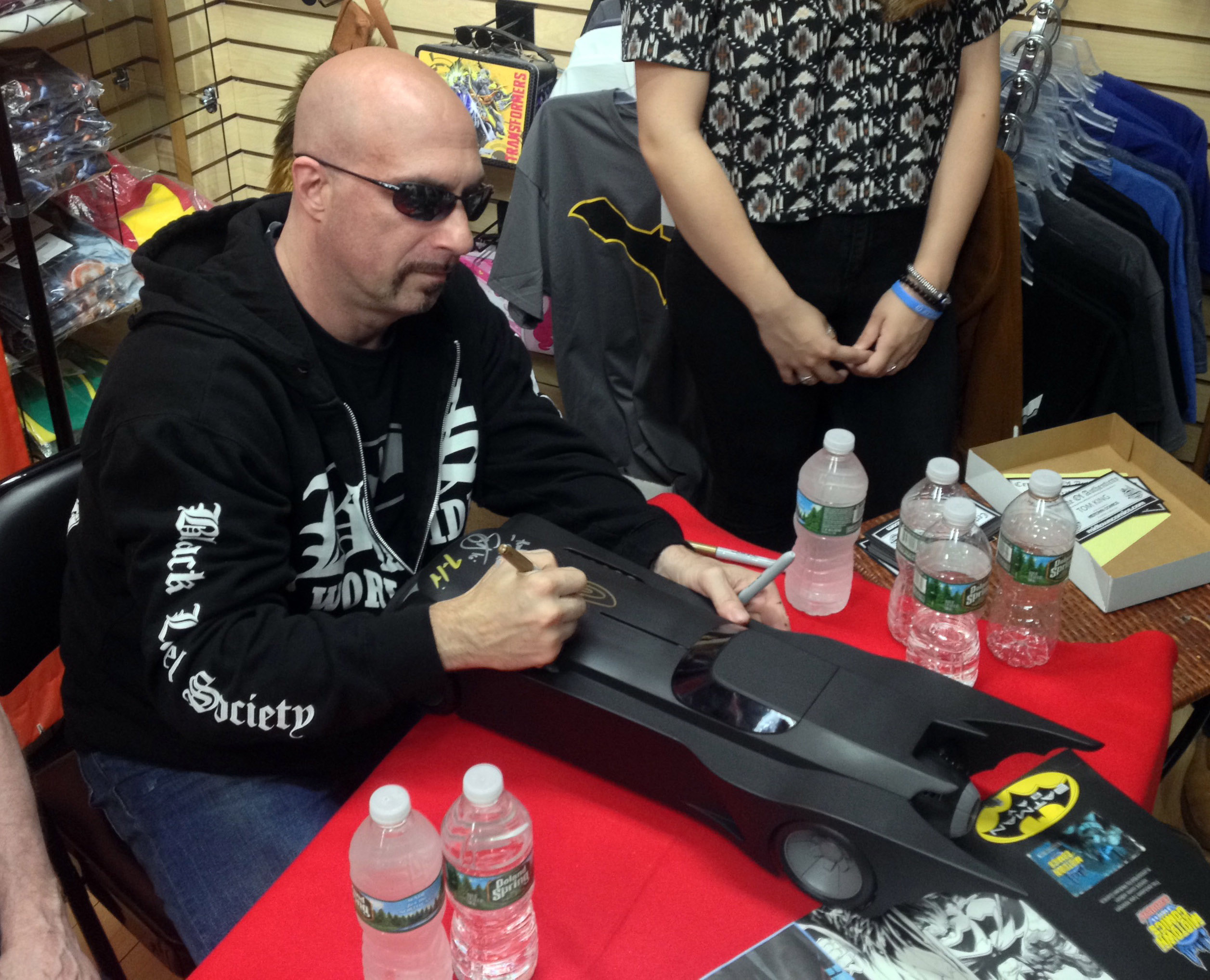 Comics creators Frank Miller and Greg Capullo sigining a toy Batmobile during an appearance at Midtown Comics Downtown September 17, 2016, the third annual Batman Day, when DC Comics celebrates the creation of the character Batman. This photo was created by Luigi Novi. It is not in the public domain, and use of this file outside of the licensing terms is a copyright violation.